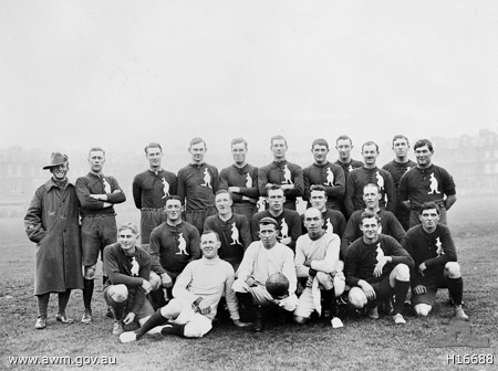 This image shows a photograph of ....., taken in .... Under Australian law, all photographs taken in Australia before 1955 are in the public domain. This image is in the public domain under both Australian copyright law and US copyright law.